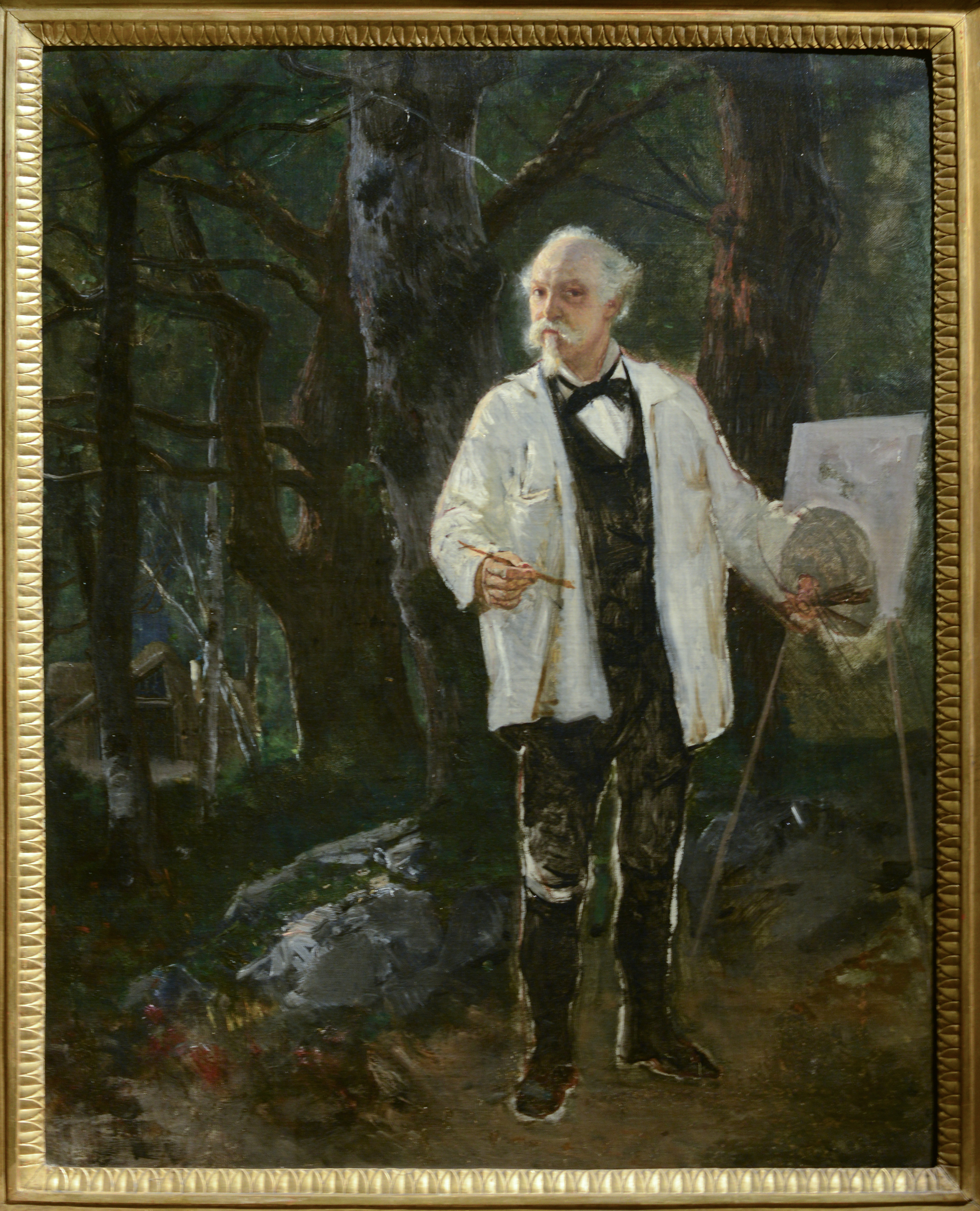 Selfportrait of Giuseppe Palizzi (exhibited at the Paris Salon of 1870)